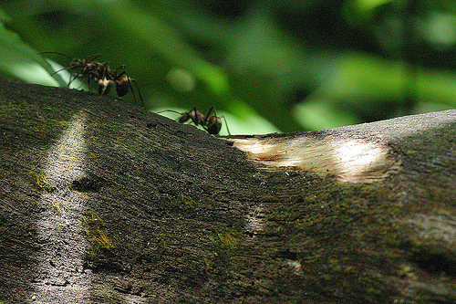 Big fire ants (length 2.5 cm) in Maninjau rainforest, West Sumatra